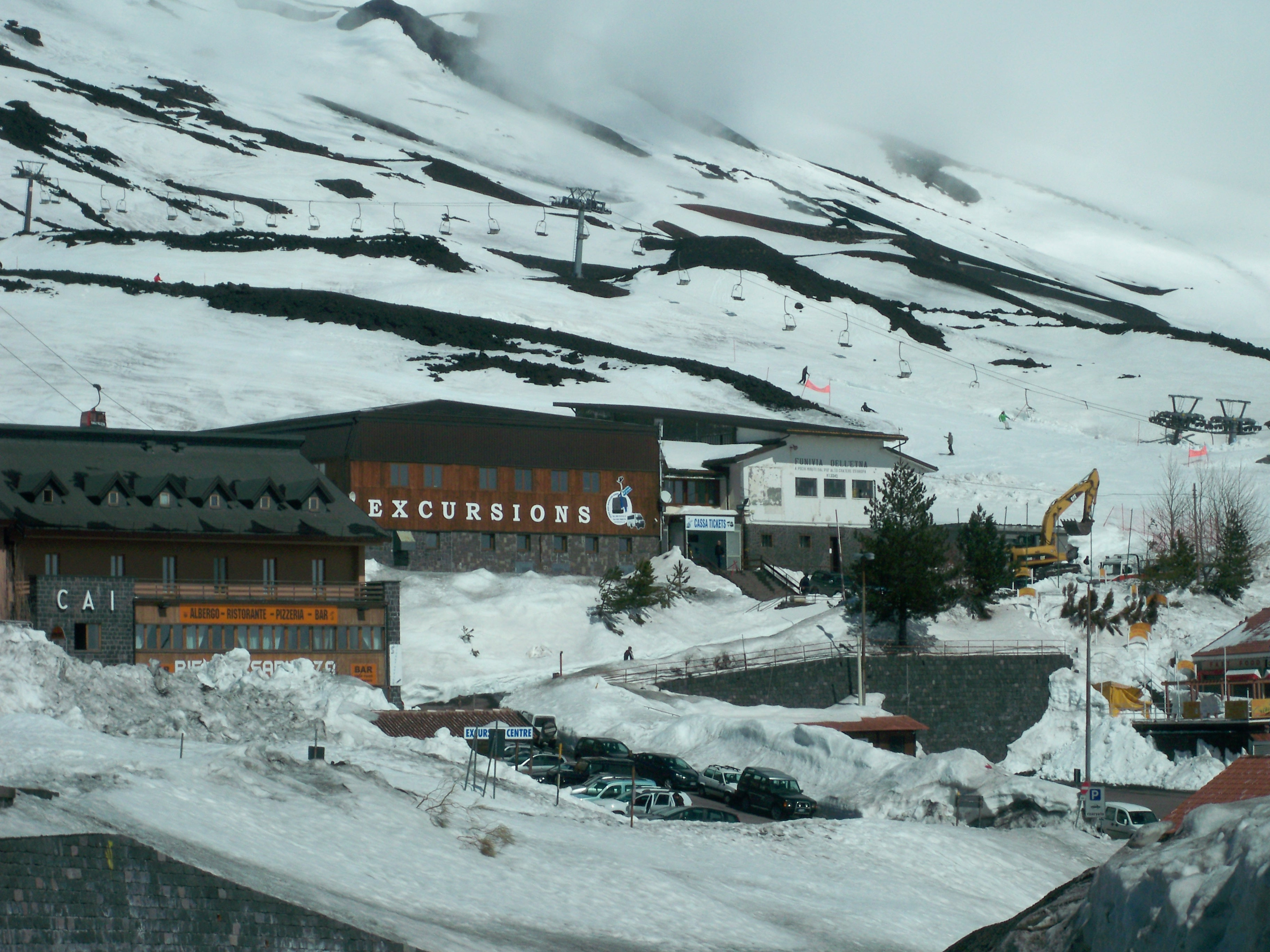 Mount Etna - rifugio Sapienza - funivia